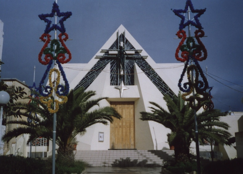 The Facade of the Fgura Church